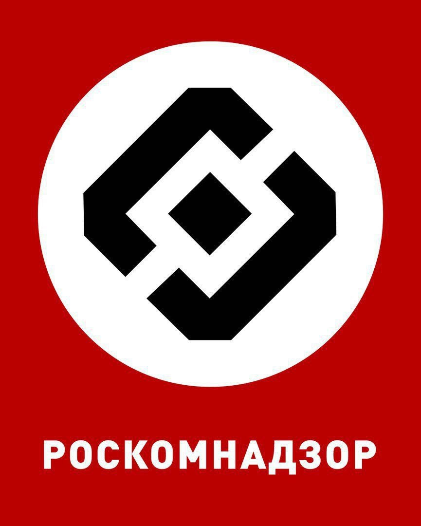 Roskomnadzor emblem